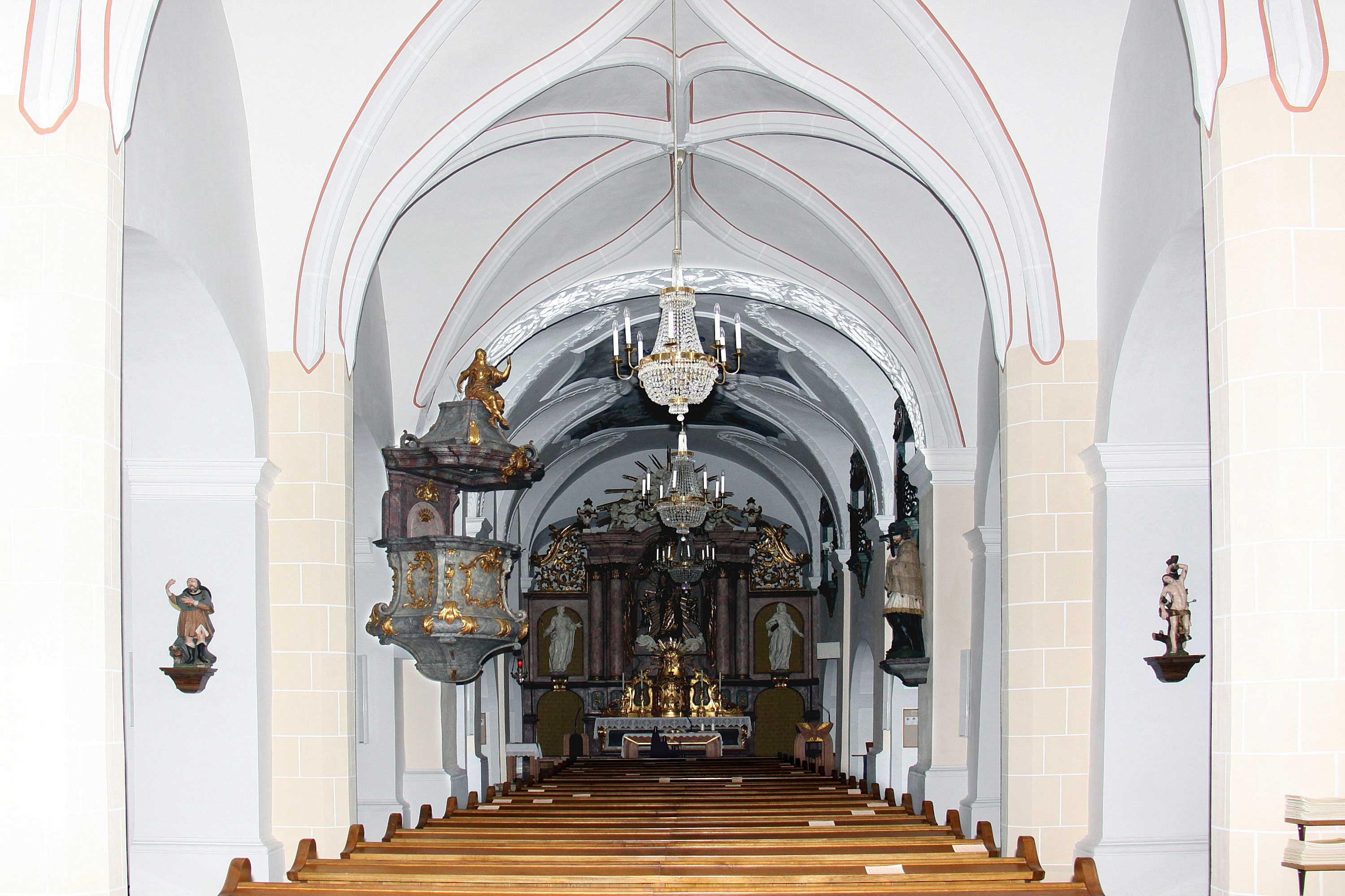 Parish church Maria Himmelfahrt - Forchtenstein Object location47° 42′ 41.34″ N, 16° 20′ 39.56″ E